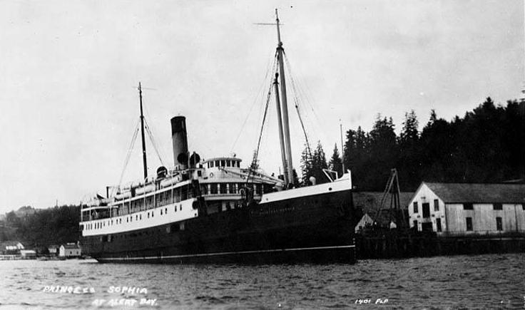 Princess Sophia steamship, at Alert Bay, British Columbia, ca 1912